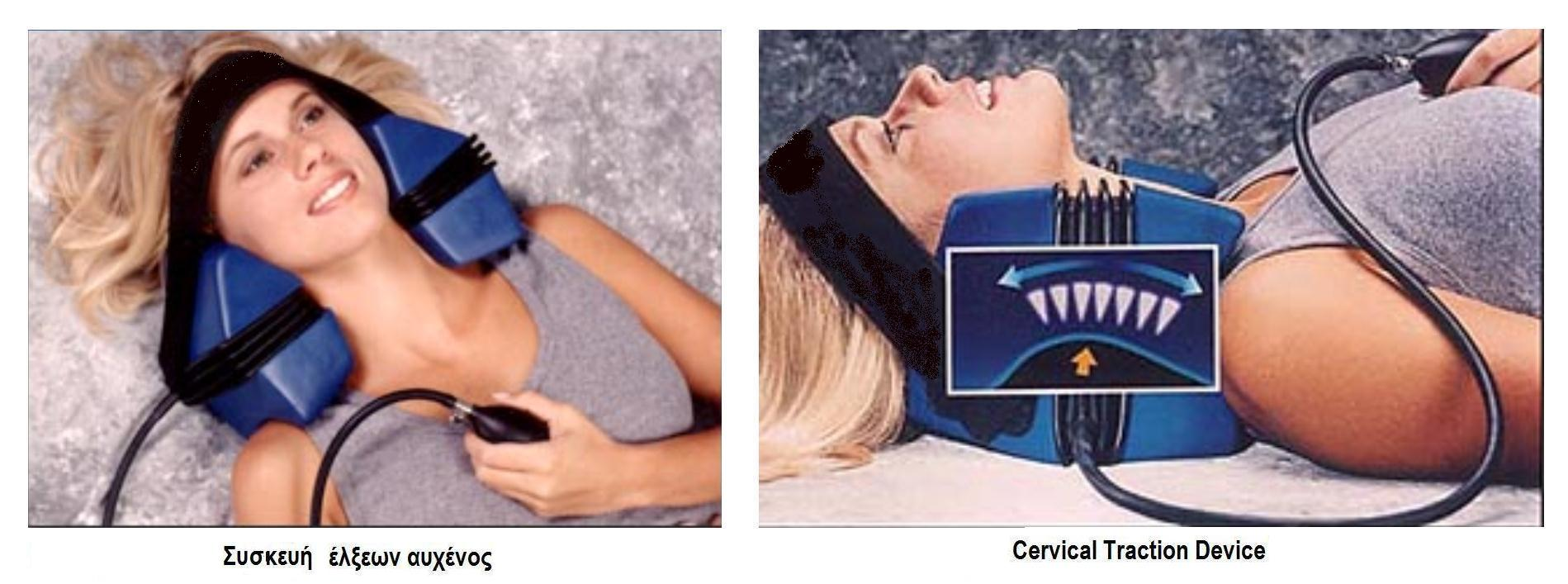 Cervical Traction device